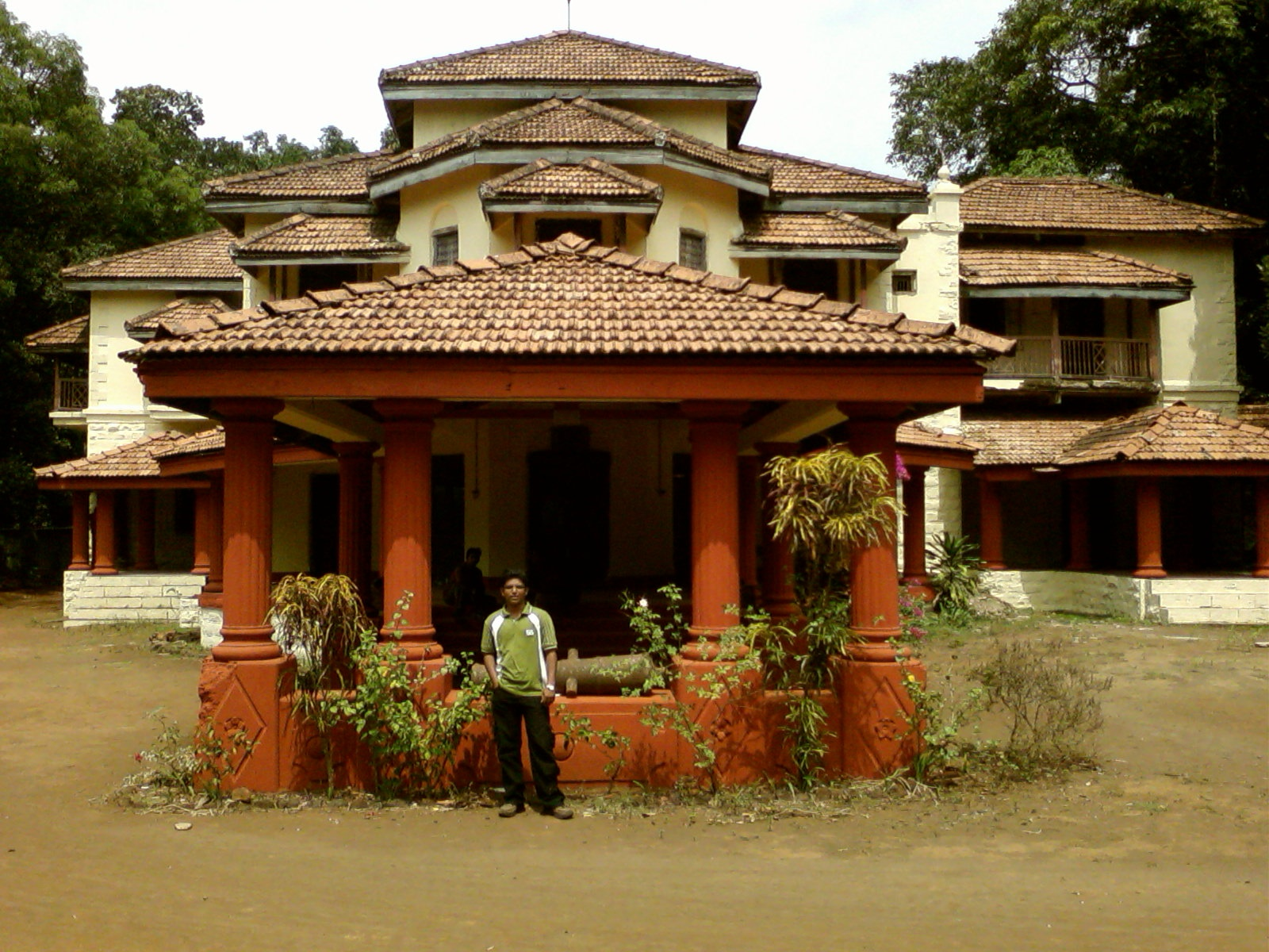 Old heritage building